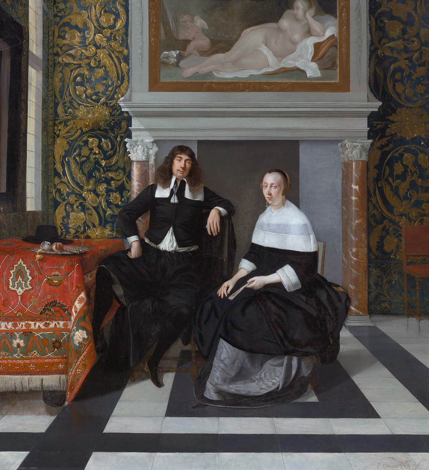 Portrait of a Man and Woman in an Interiorlabel QS:Len,"Portrait of a Man and Woman in an Interior"